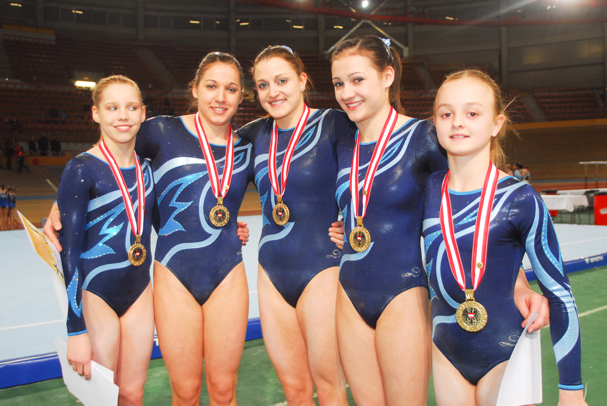 Eileen Lamprecht, Katharina Fa, Barbara Gasser, Elisa Hämmerle, Olivia Jochum 2011.